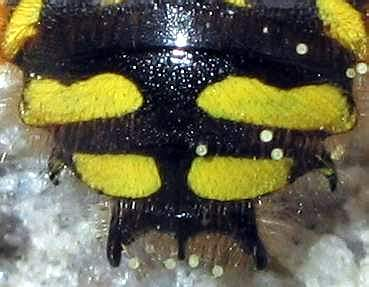 Detail of a male of Anthidium manicatum Author: soebe Date: 2005-08-16 Location: Eckernförde, Northern Germany